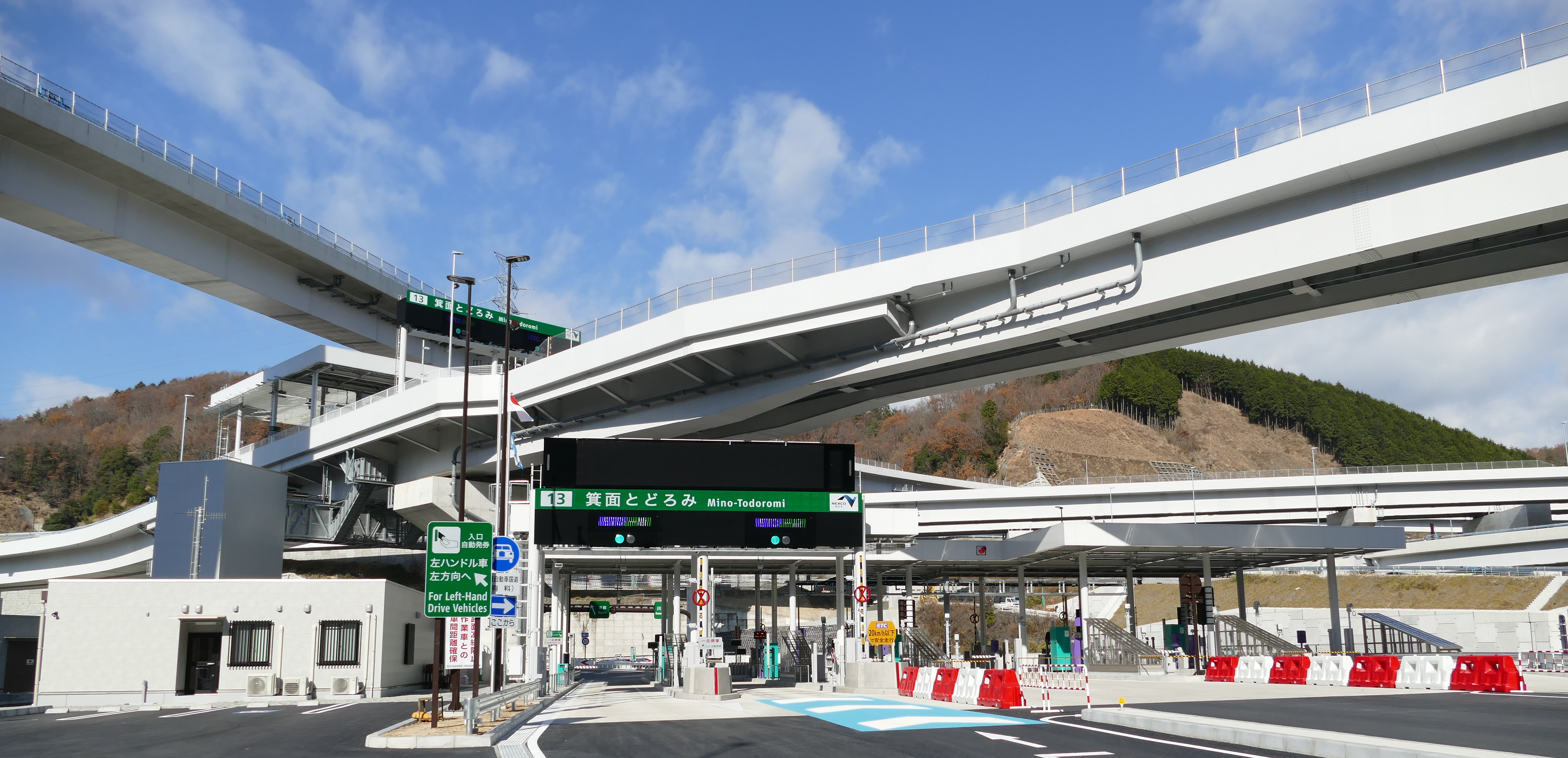 Mino-Todoromi Inter Change ,Osaka prefecture,Japan